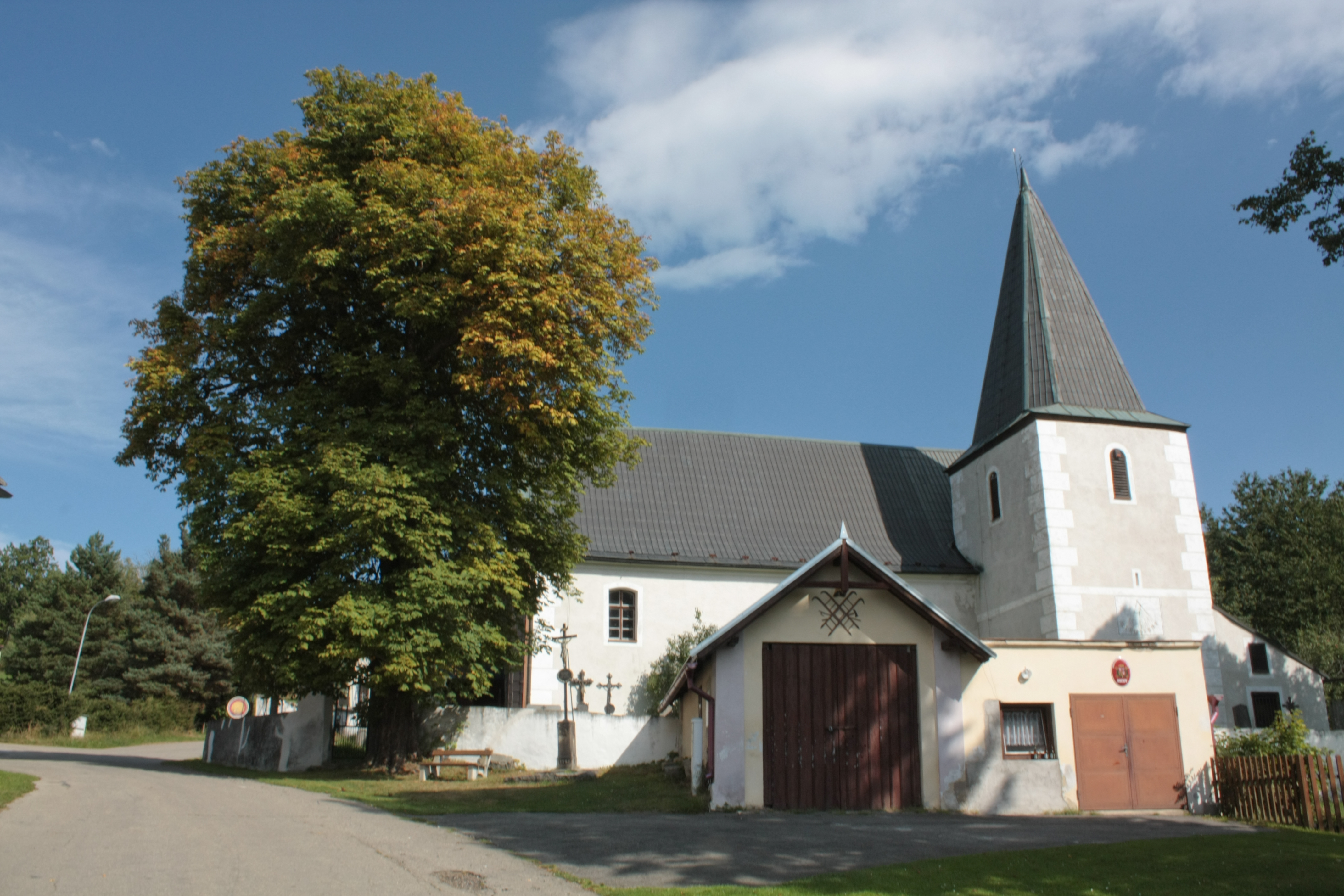 Nicov, Prachatice District, Czech Republic Object location49° 07′ 29″ N, 13° 37′ 34″ E